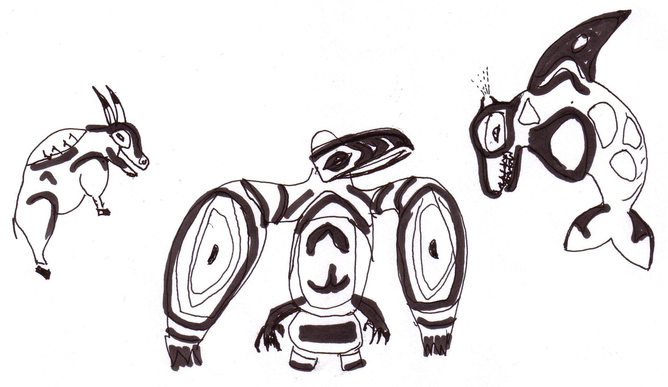 3 animals from the North-West Coast Amerindians bestiary, with their noticable features : the Lord Great Raven, bringing salmons to men in its wings; the white goat (with hump and leering smile); and the killer-whale (with its dangerous joviality, jumping and smarting his dorsal fin, and spouting throuh its blow-hole.